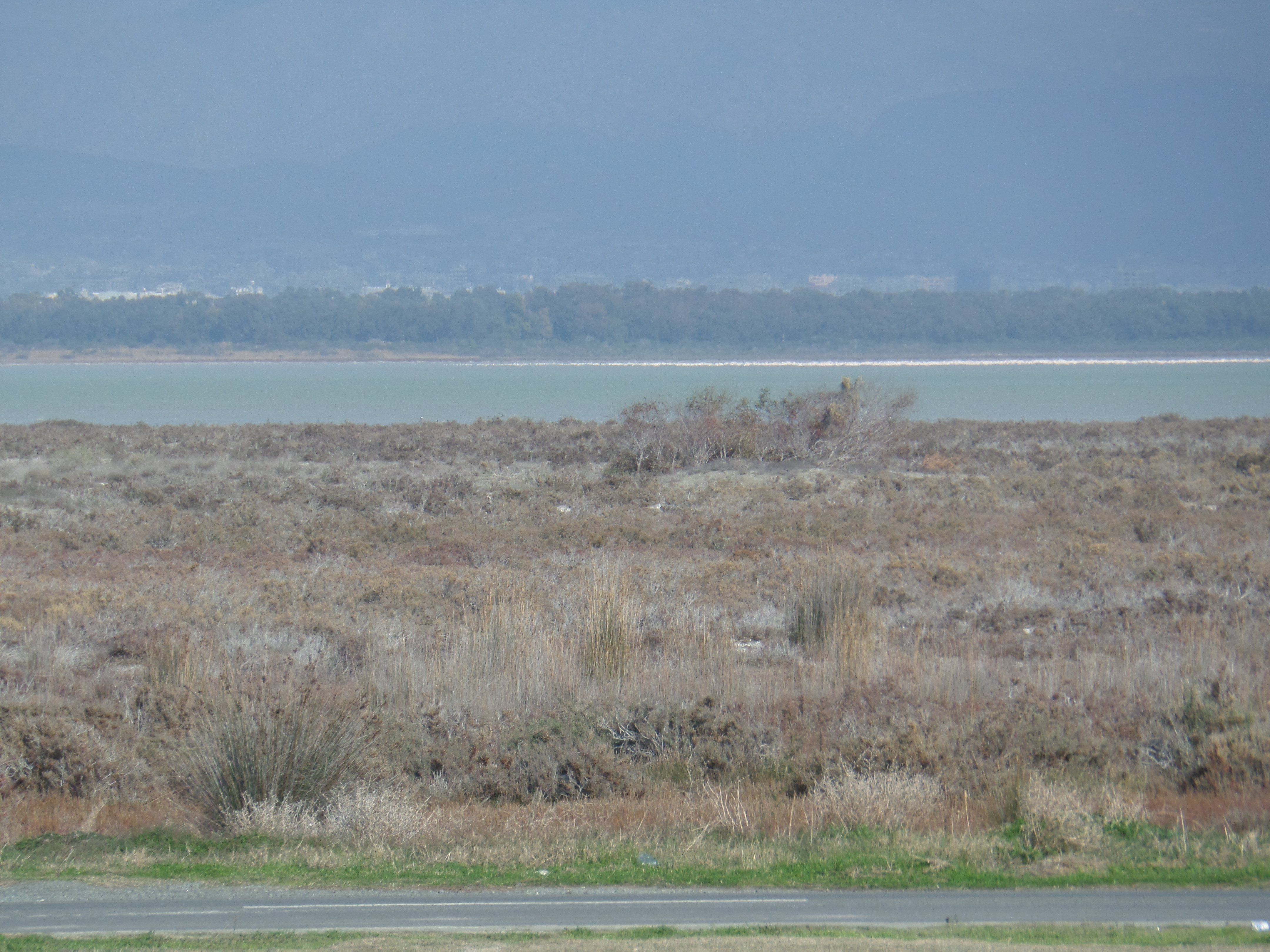 Limassol Salt Lake